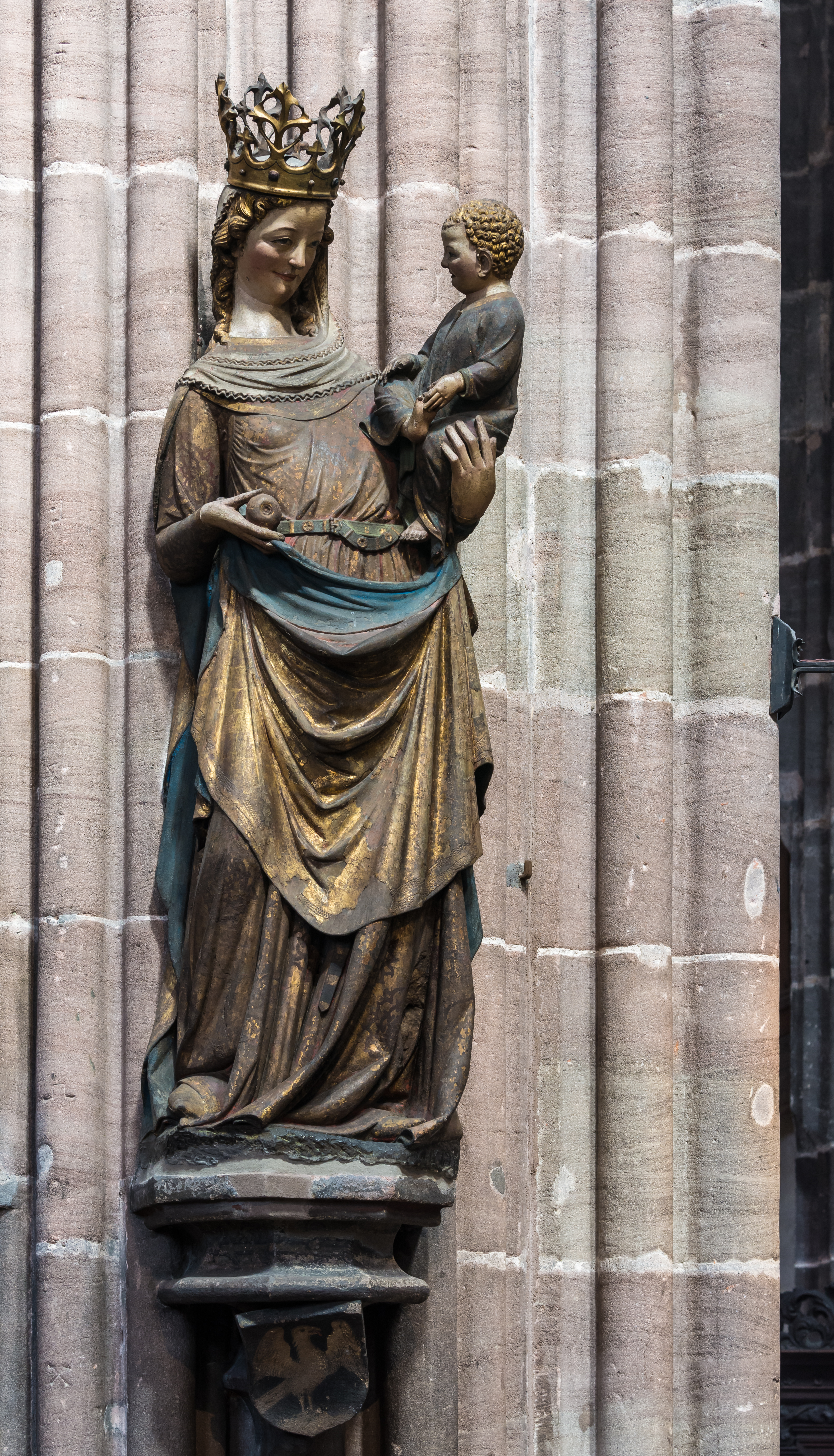 Schöne Madonna (Beautiful Madonna) at St. Lorenz parish church in Nuremberg, Middle Franconia, Bavaria, Germany. Anonymous master, around 1285.